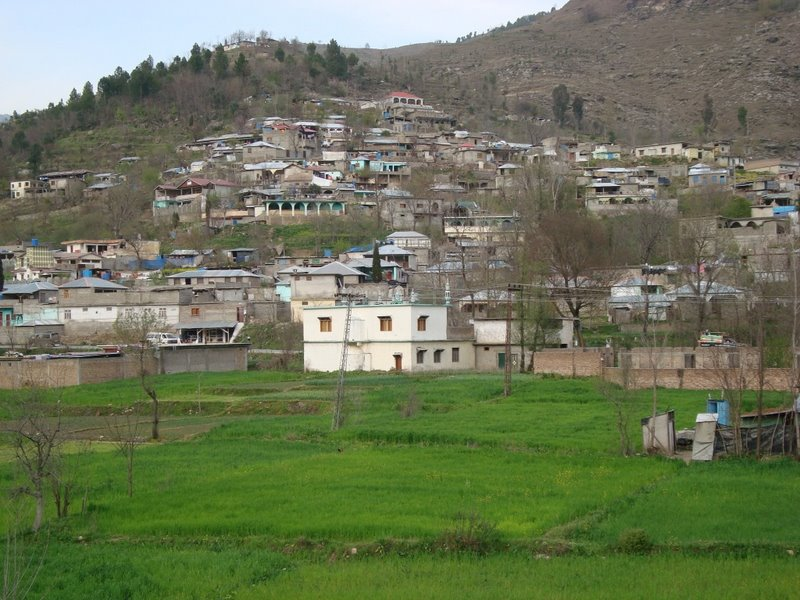 This picture is taken in 2008